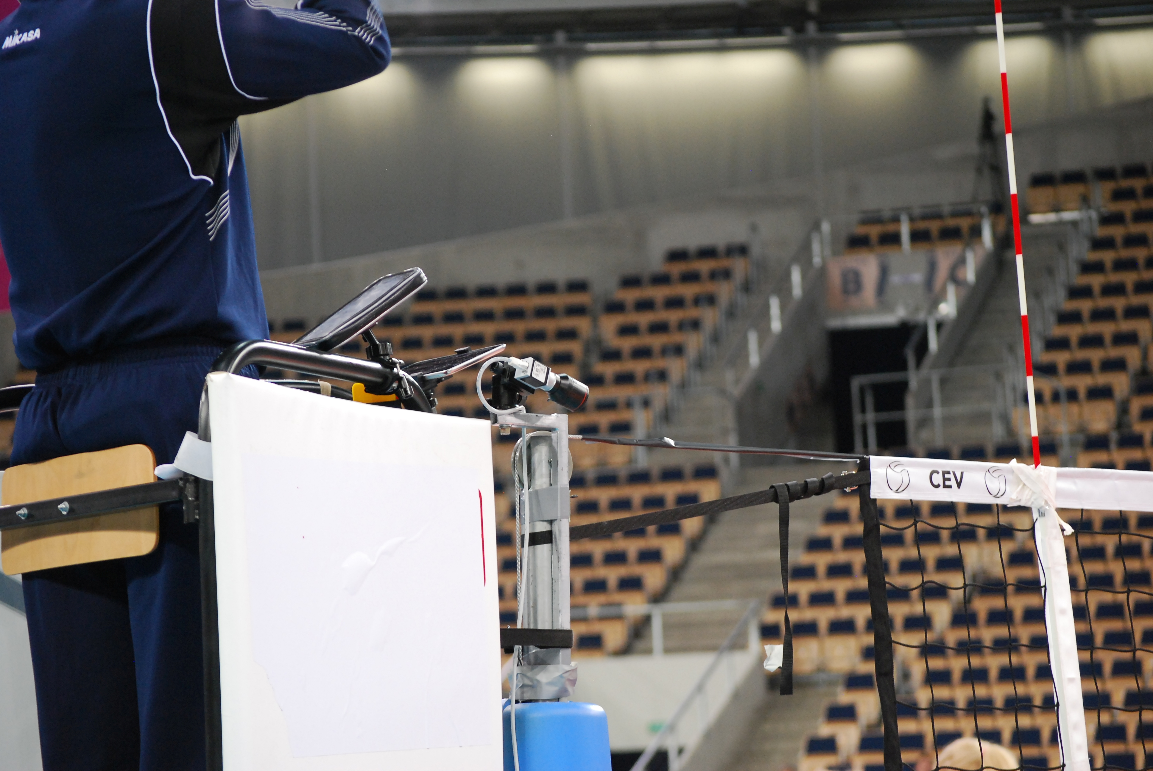 Volleyball equipment - cameras for official review and referee tablet